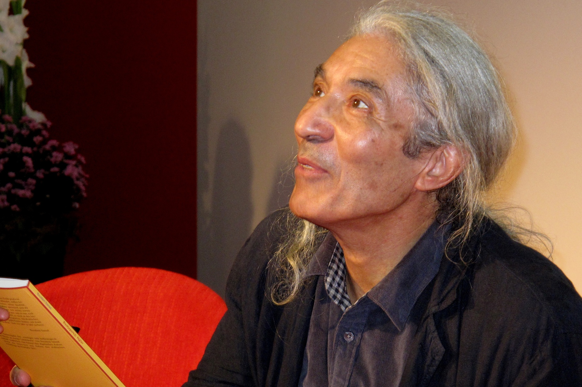 Boualem Sansal (Frankfurt Book Fair 2011)